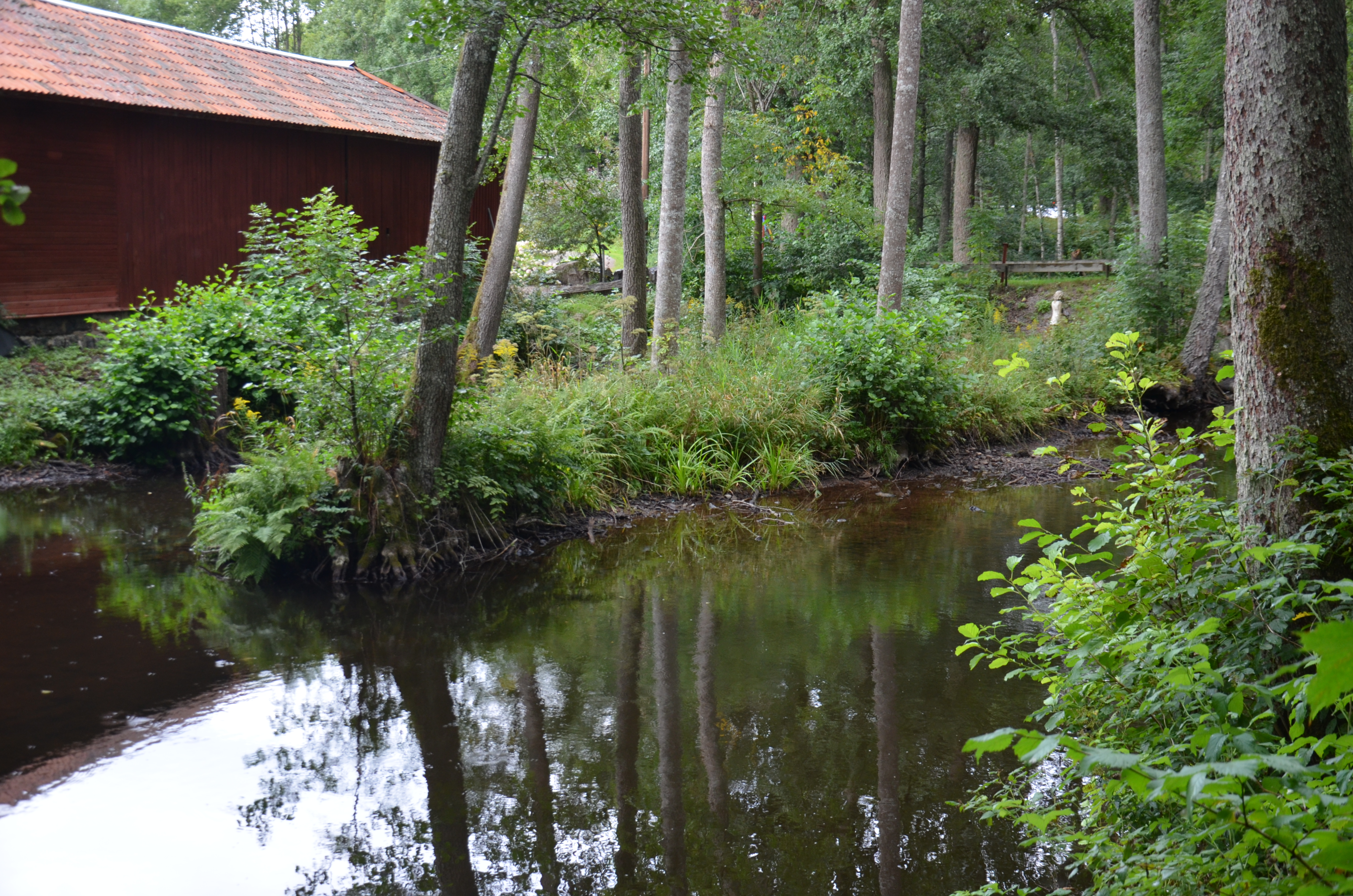 Sågholmen i Ängelsbergsströmmen, där tidigare Stabäcks hytta och hammare låg.